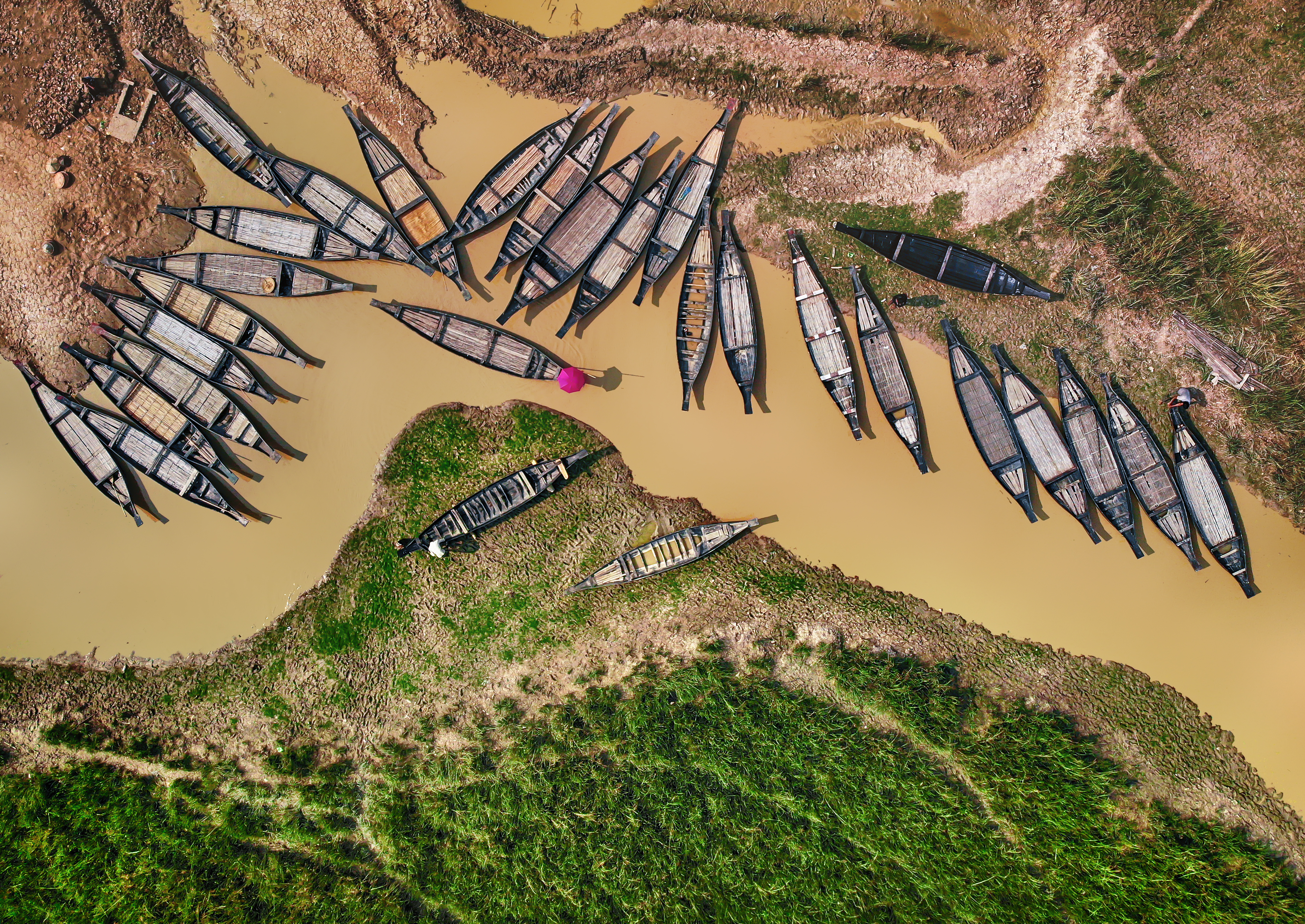 Aerial wiew of wooden boats along the shores of the freshwater waterways in Ratargul Swamp Forest, Gowain River, Fatehpur Union, Gowainghat, Sylhet, Bangladesh. Photo taken with a drone.